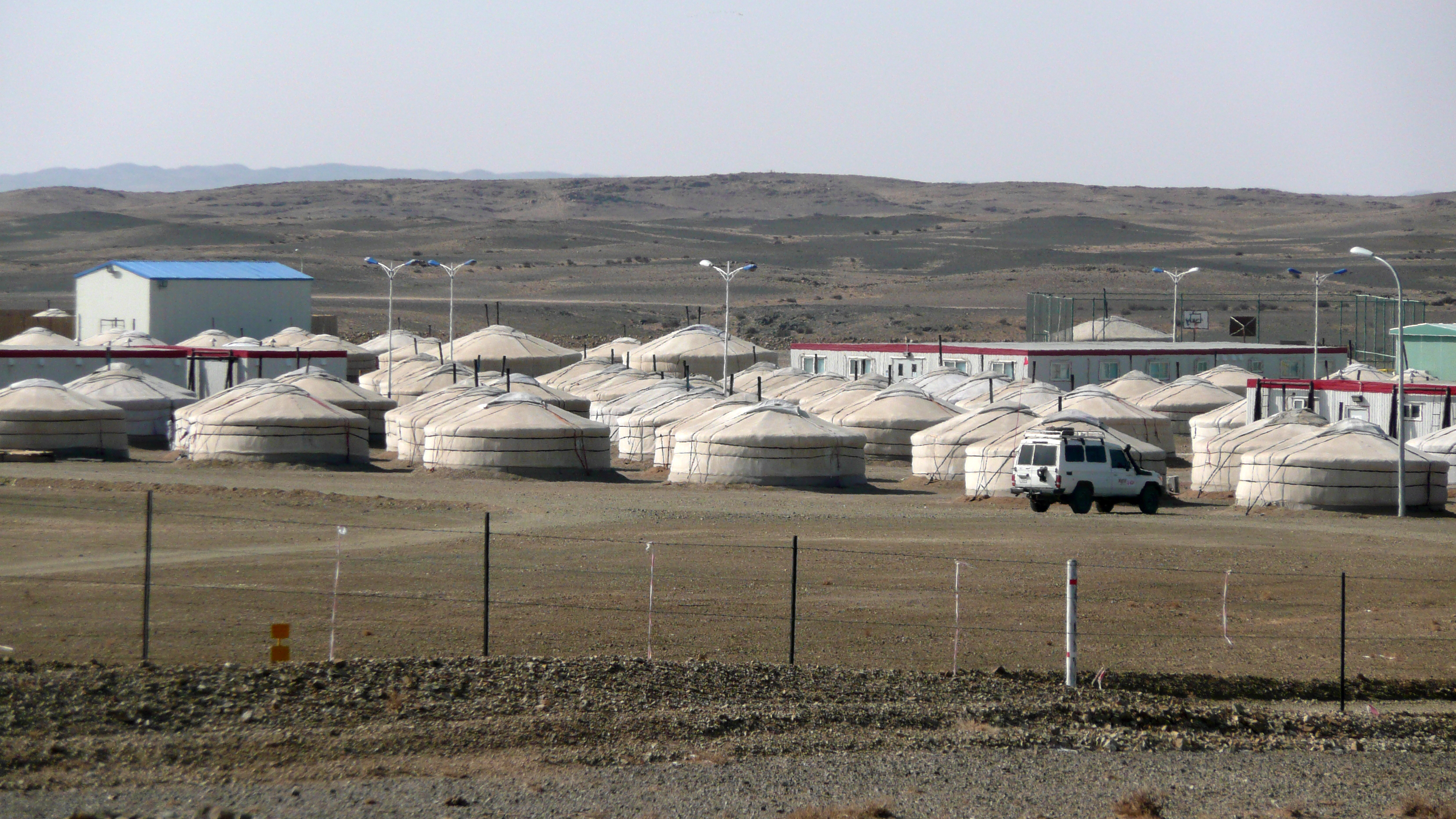 Oyu Tolgoi project - Copper and Gold Mine in South Gobi